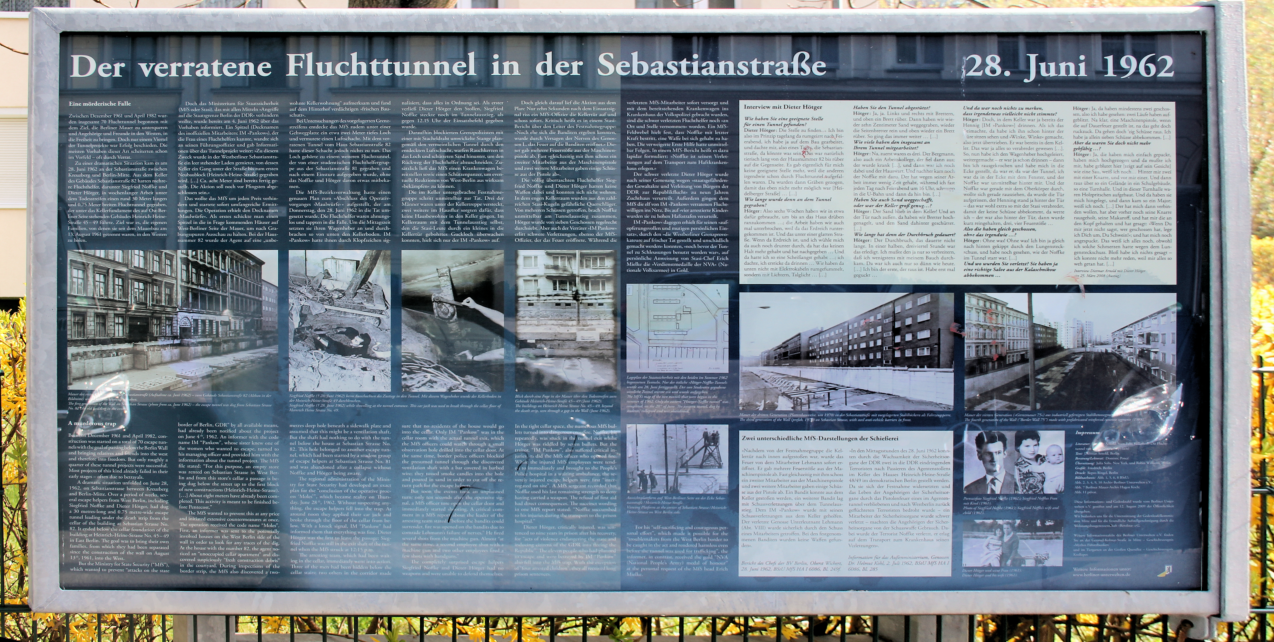 Memorial plaque, Fluchttunnel, Sebastianstraße 82, Berlin-Kreuzberg, Germany